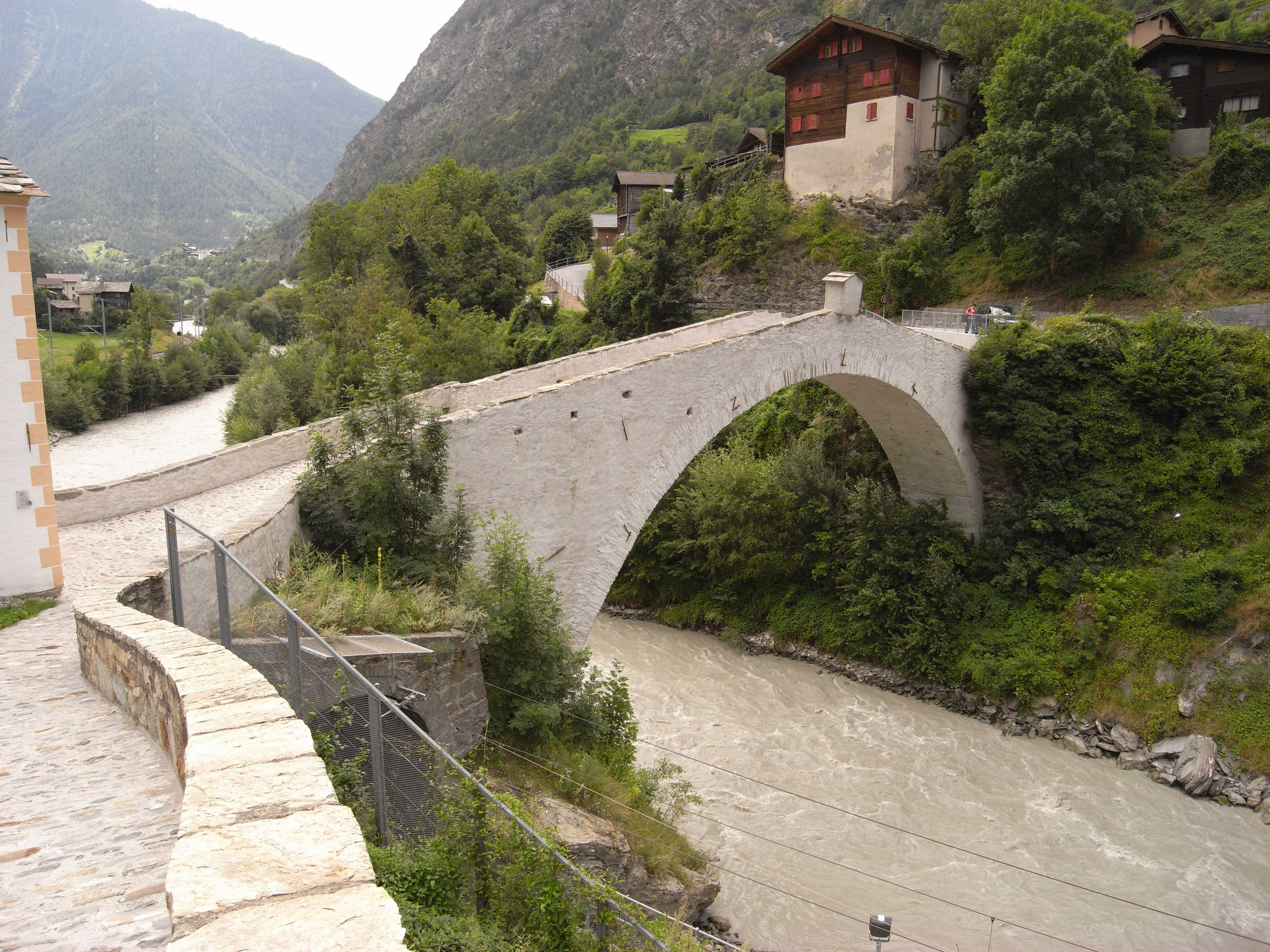 Bridge ("Ritibrücke") in Neubrück (Valais, Switzerland)